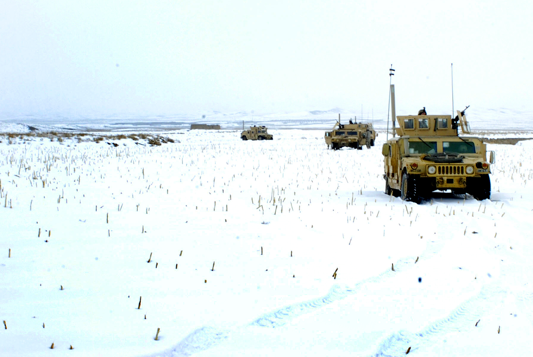 With weather conditions making it difficult for some villagers to travel to a medical clinic in Nawa District, Ghazni Province, Afghanistan, coalition medics traveled to some of the more remote villages in the area, Jan. 14, 2008. U.S. Army photo by Spc. Nathan W. Hutchison